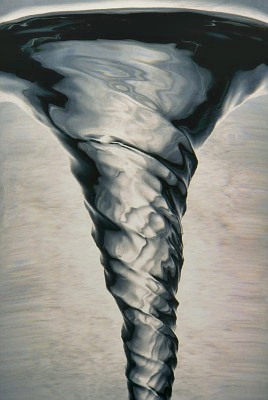 vortex in a bottle of water